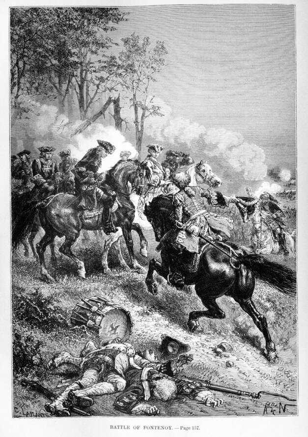 Battle of Fontenoy